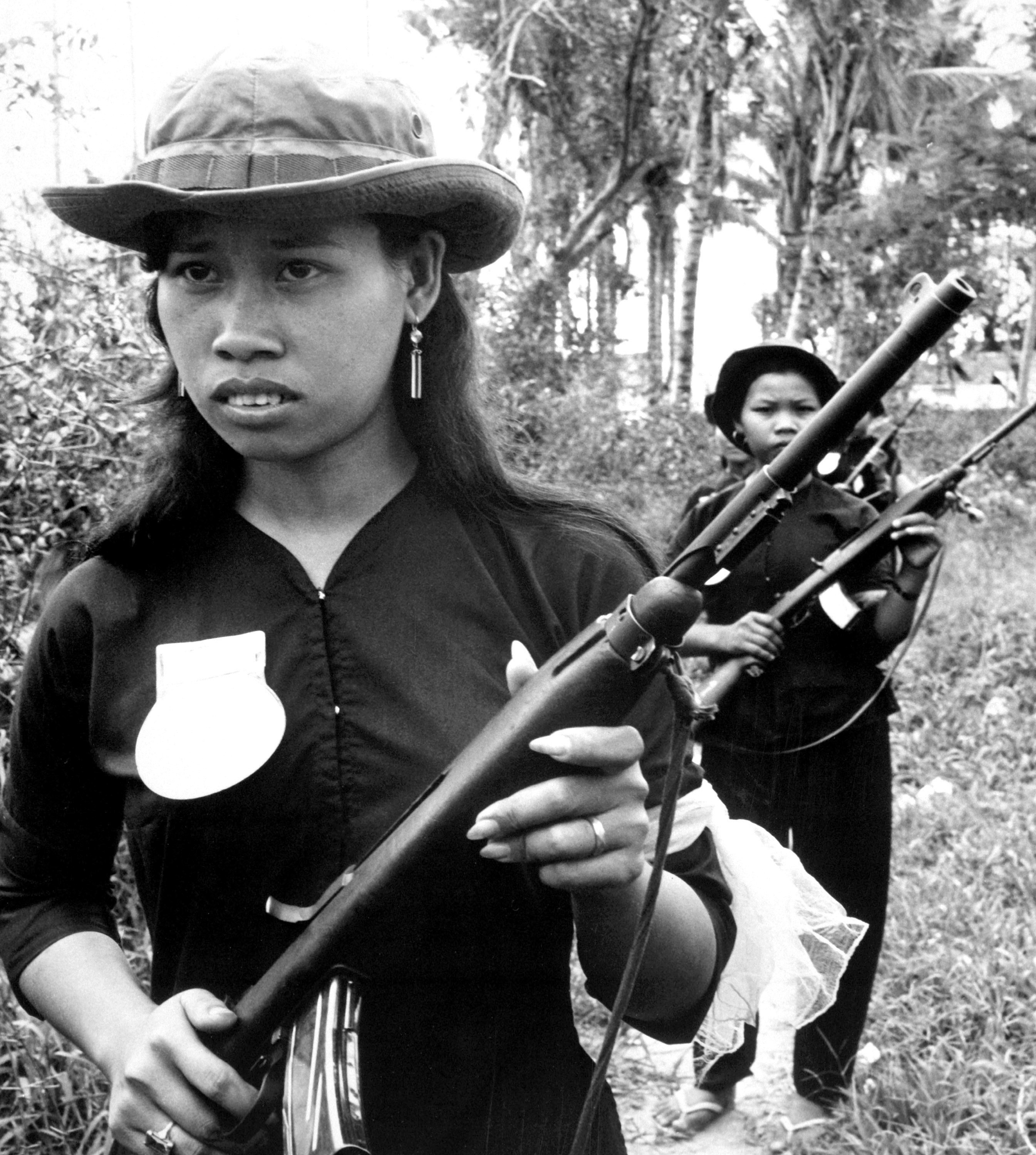 Girl volunteers of the People's Self-Defense Force of Kien Dien, a hamlet of Ben Cat district 50 kilometeres north of Saigon, patrol the hamlet's perimeter to discourage Viet Cong infiltration.